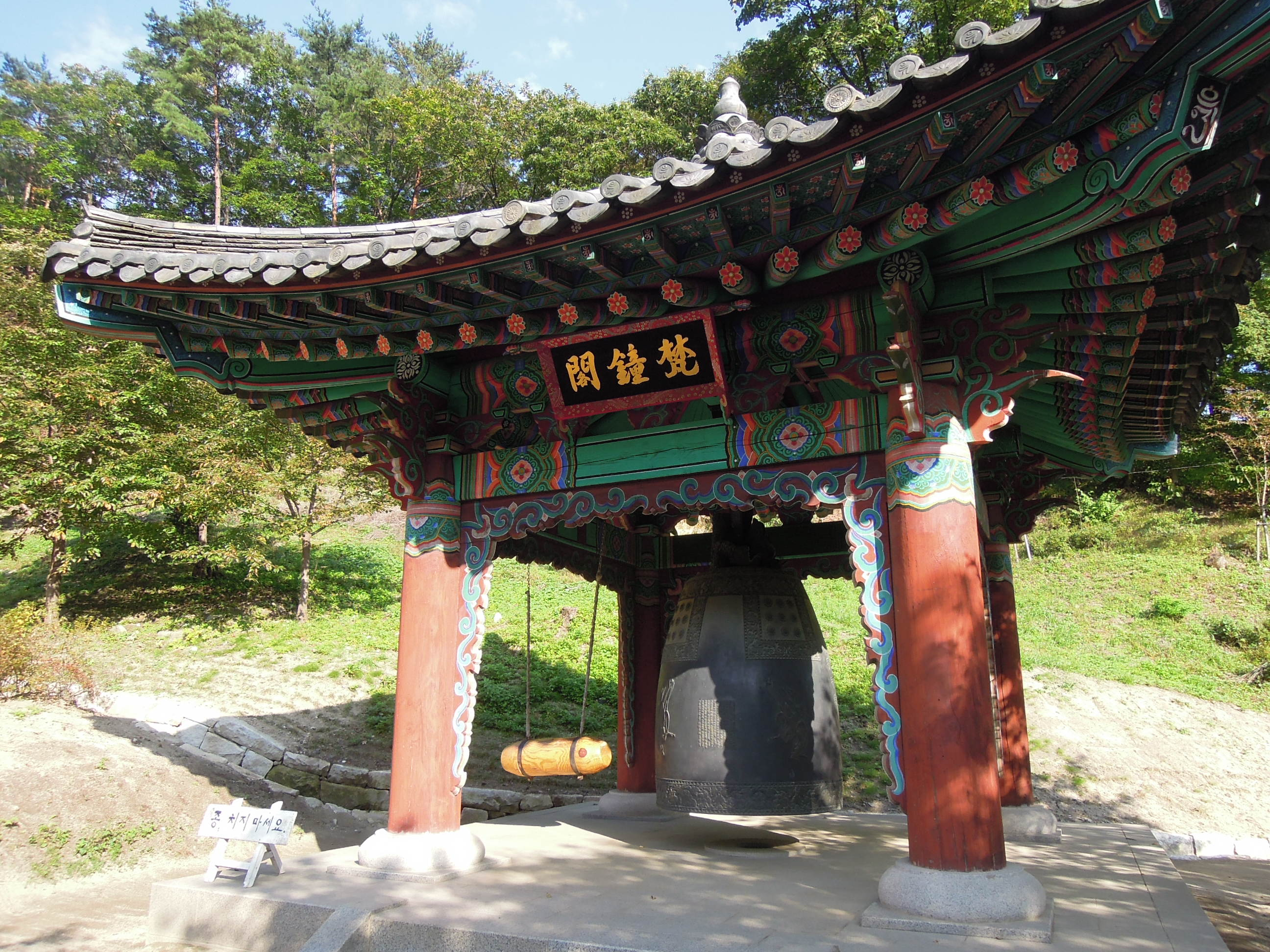 The big bell of the Cheongpyeong Temple